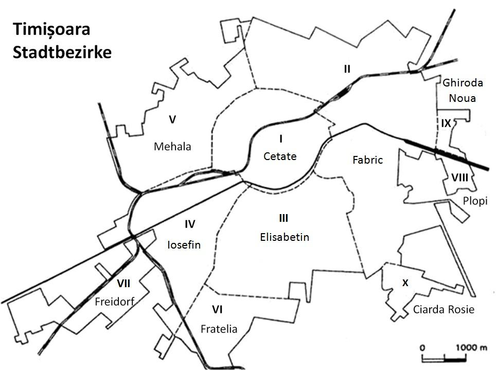 Quarters of Timişoara